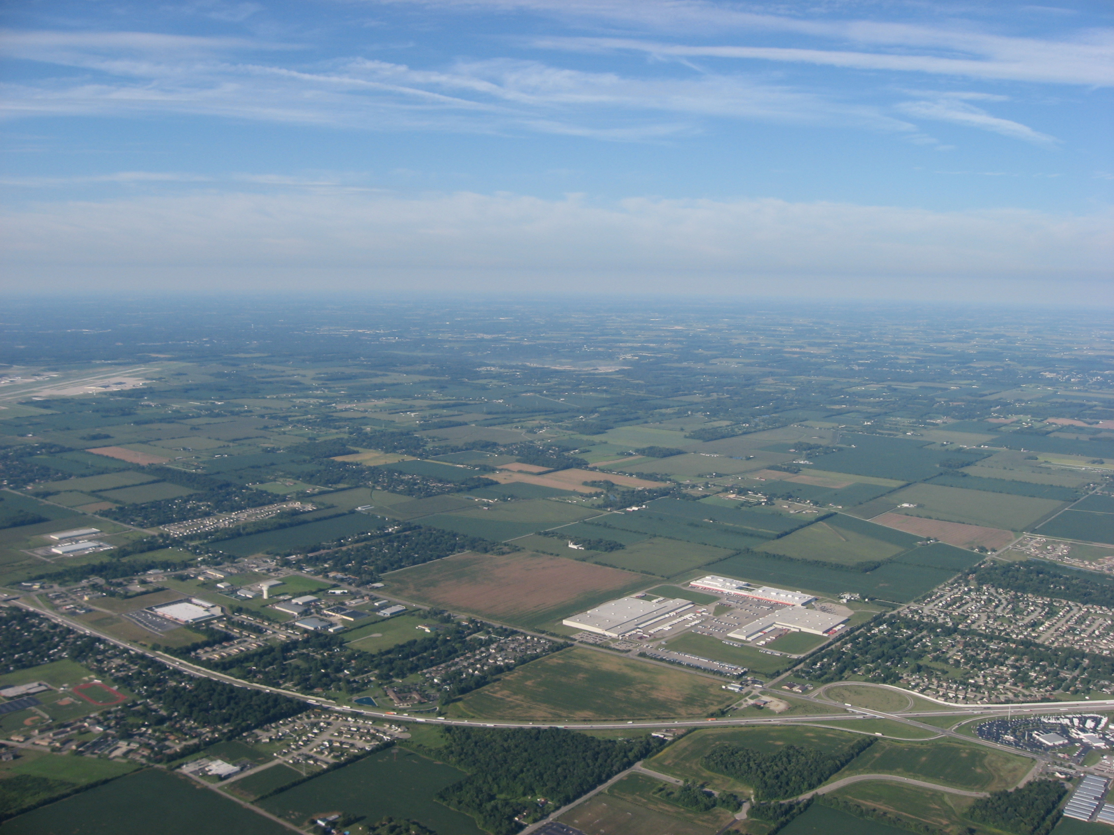 Aerial view of countryside in northern Monroe Township, Miami County, Ohio, United States. Interstate 75 is the highway in the foreground; the nearby interchange is that with County Road 25-A. Picture taken from a Diamond Eclipse light airplane at an altitude of 4,420 feet MSL and a bearing of approximately 230º.